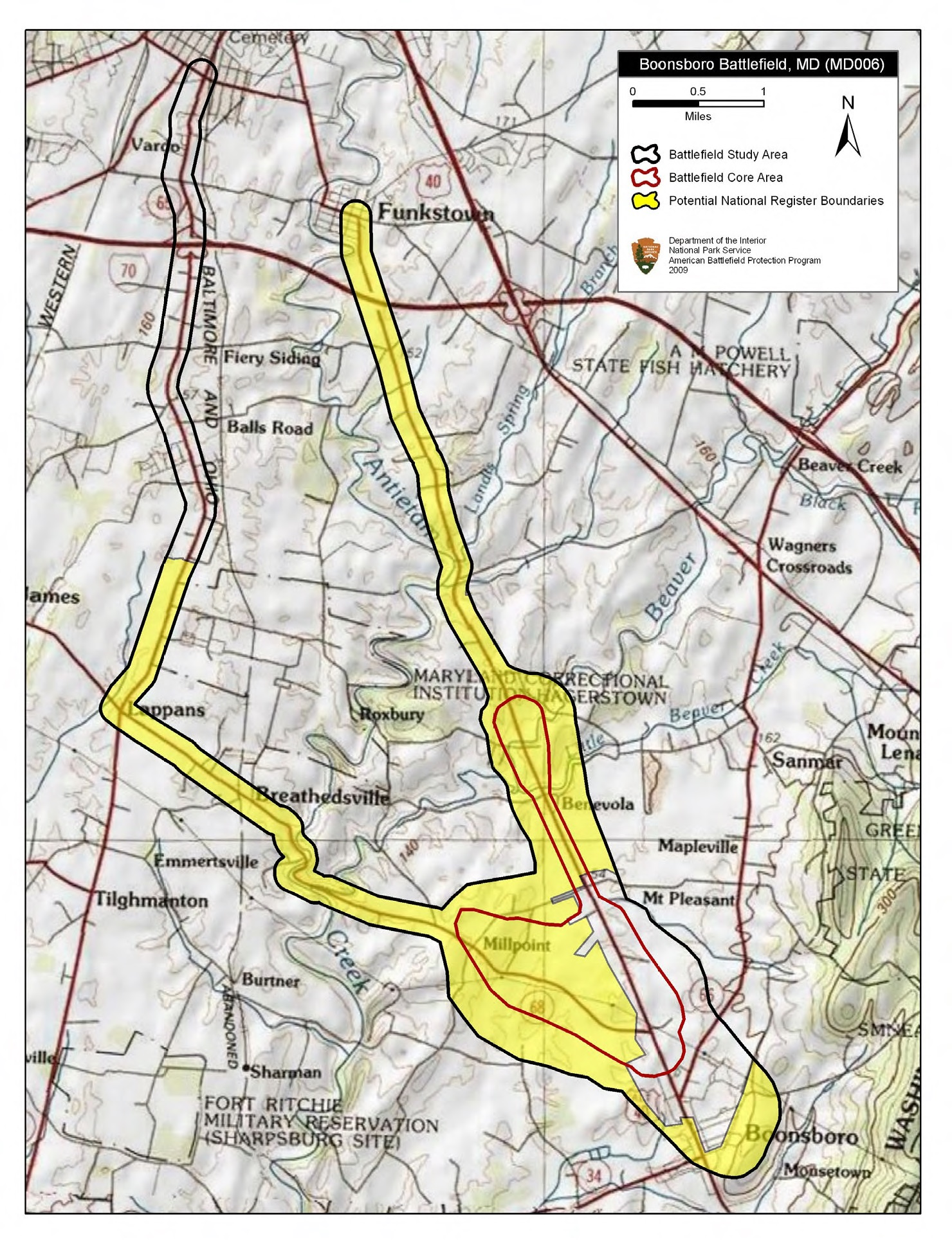 Map of battlefield core and study areas. The boundary has been expanded to include the Federal approach from South Mountain and the Confederate approach and retreat between Williamsport and Funkstown and Boonsboro.